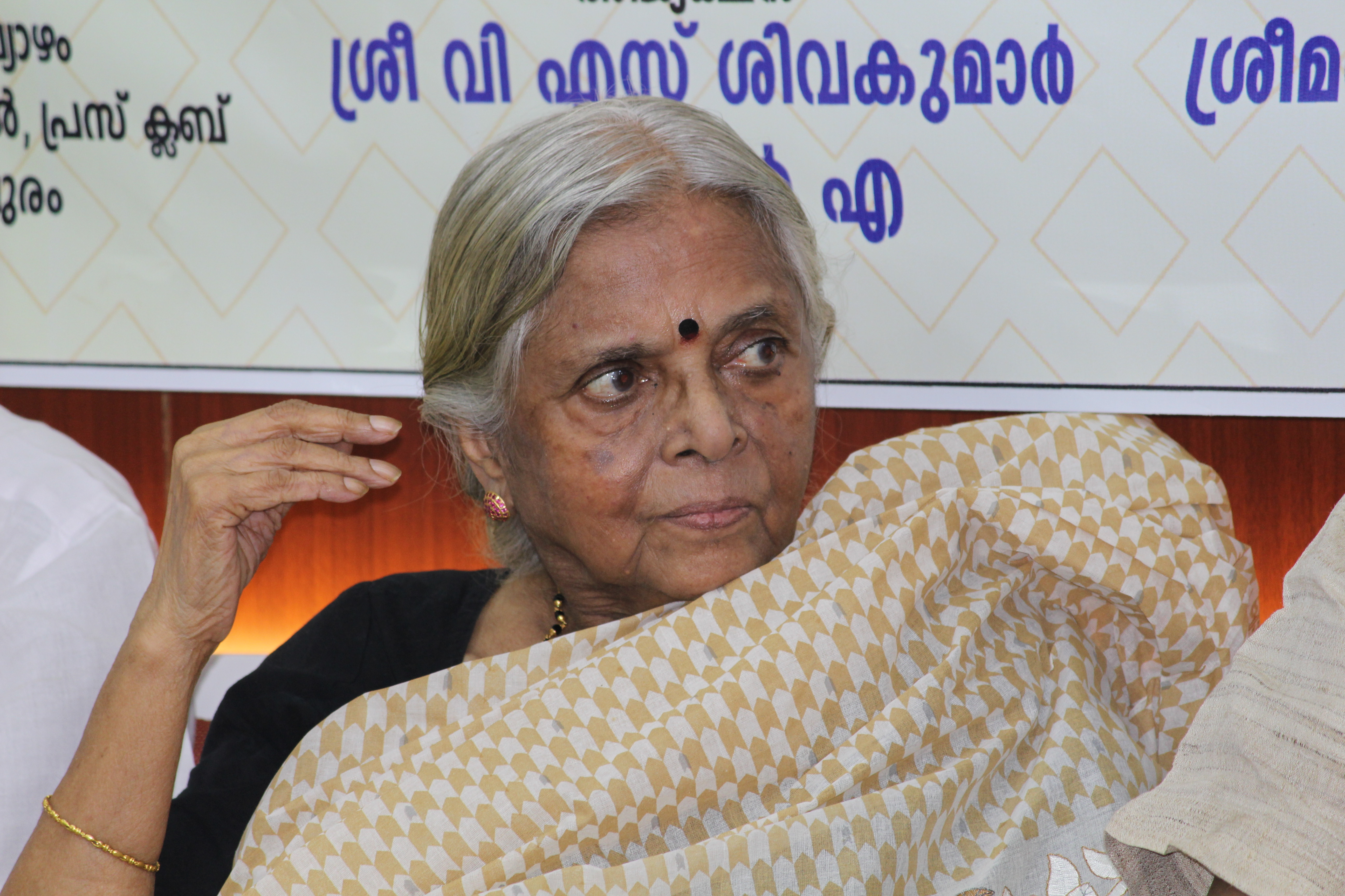 Sugathakumari Teacher, Indian poet and activist.